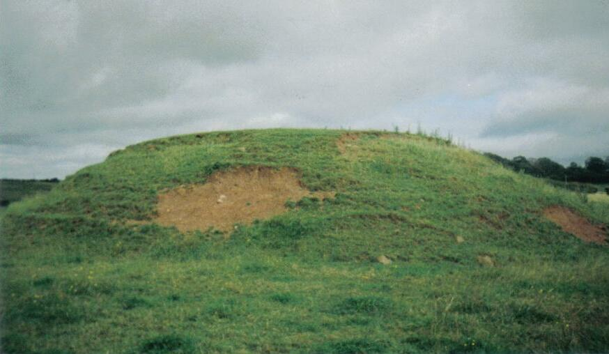 The Moot Hill or Law Mount above the River Annick near Castleton Farm, East Ayrshire, Scotland. A photograph taken by me in 2005 for this article